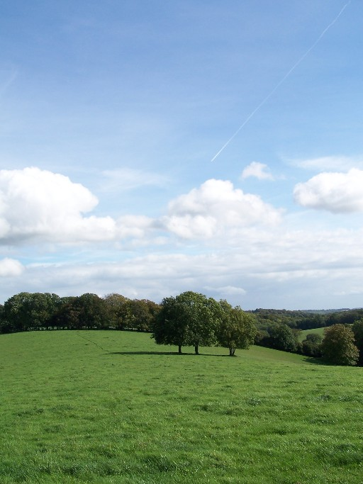 Rolling Countryside – Chiltern Hills near Nettlebed, England